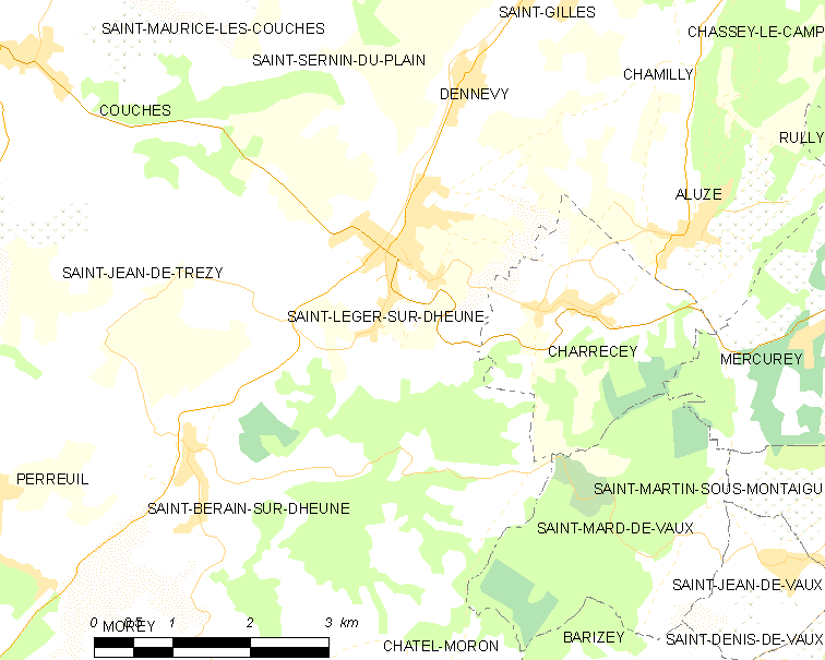 Map of French municipality